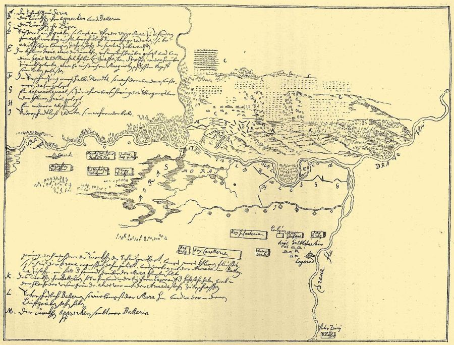 The camp of Novi Zrin Castle (Hungarian: Zrínyiújvár), northern Croatia, by Raimondo Montecuccoli